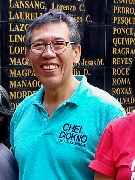 Chel Diokno at an event honoring the heroes and martyrs of Martial Law at the Bantayog ng mga Bayani on 23 February 2019